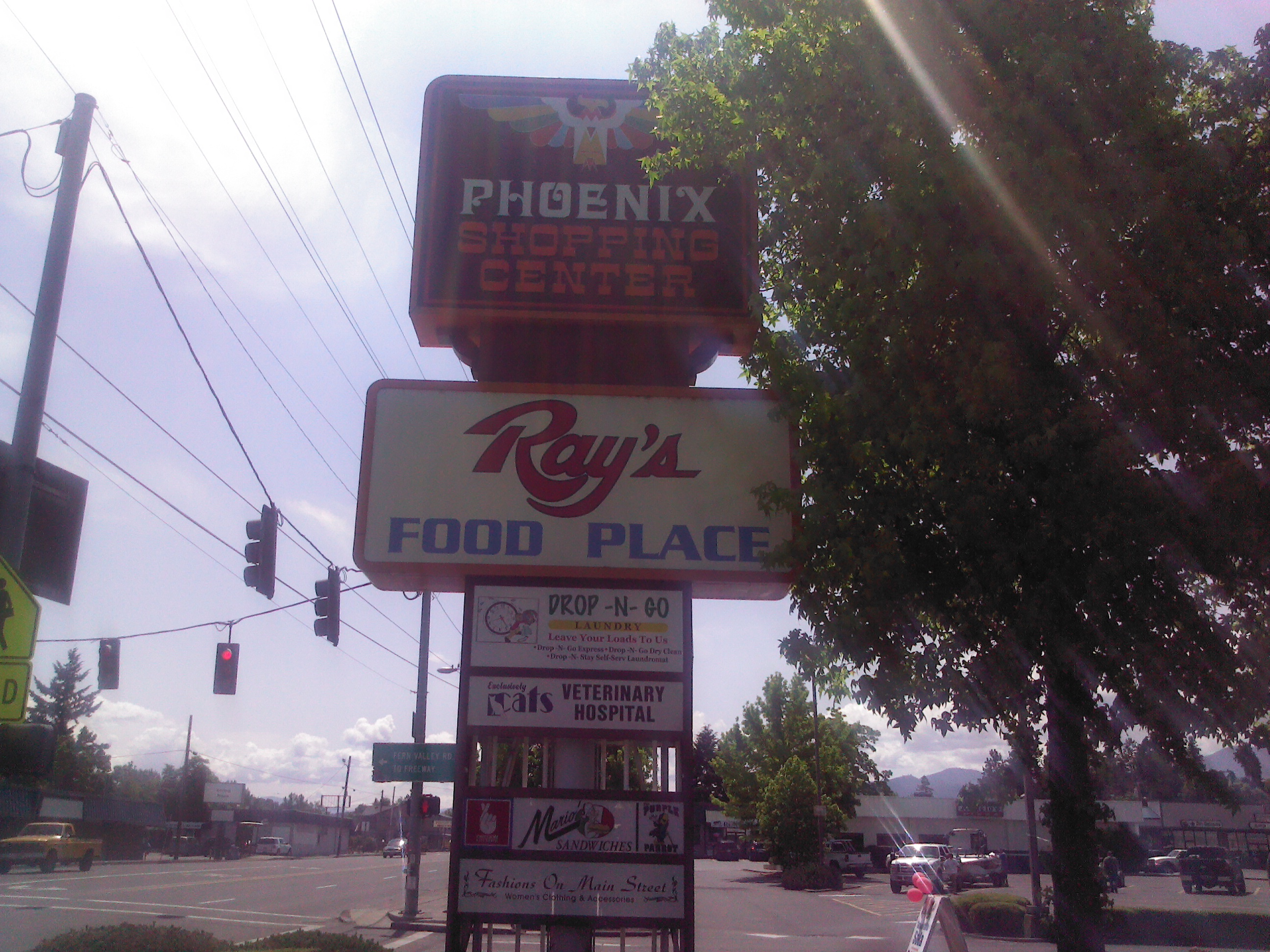 A picture I took of the Phoenix Shopping Center sign in Phoenix, where I currently live. I grant permission for this image to be used outside Wikipedia, as long as I (Dpm12) am given credit.